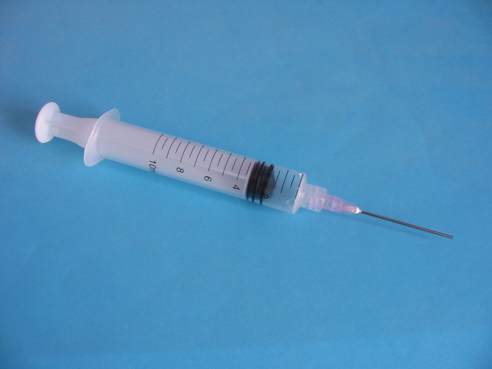 Syringe fitted with needle. Scale in ml.